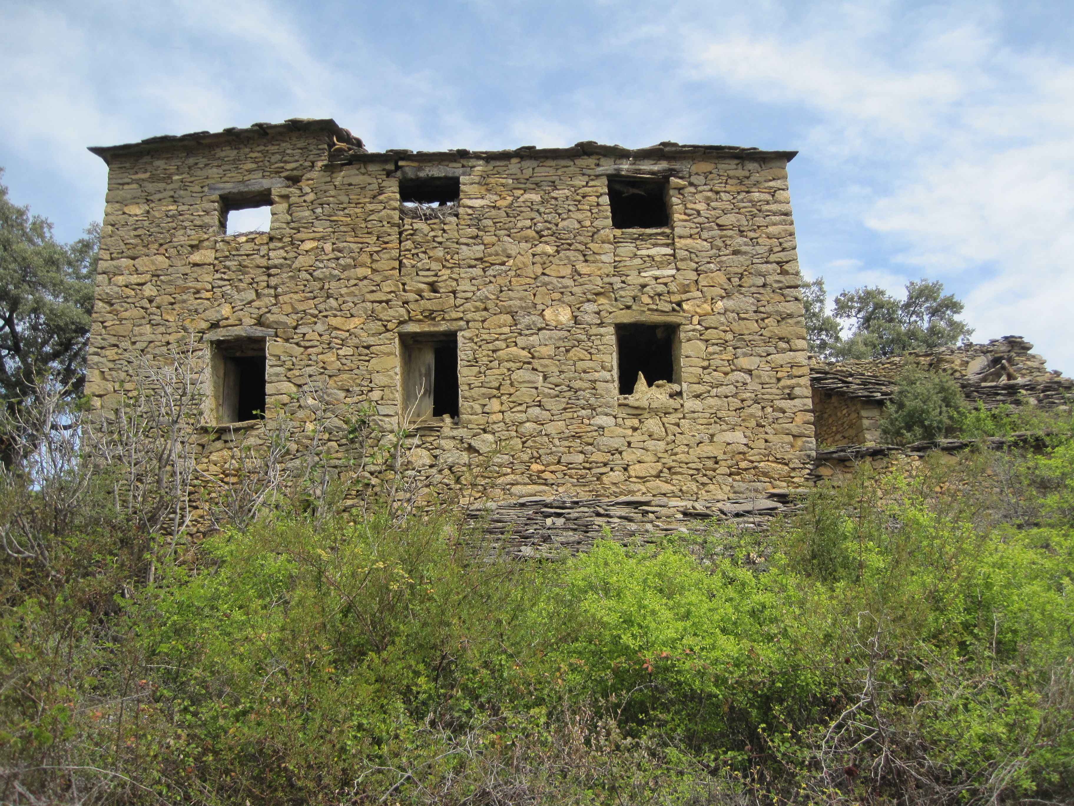 Facade of Cal Casó, most of which is in much worse shape, but shows some important dimensions, as well as some very interesting elements.